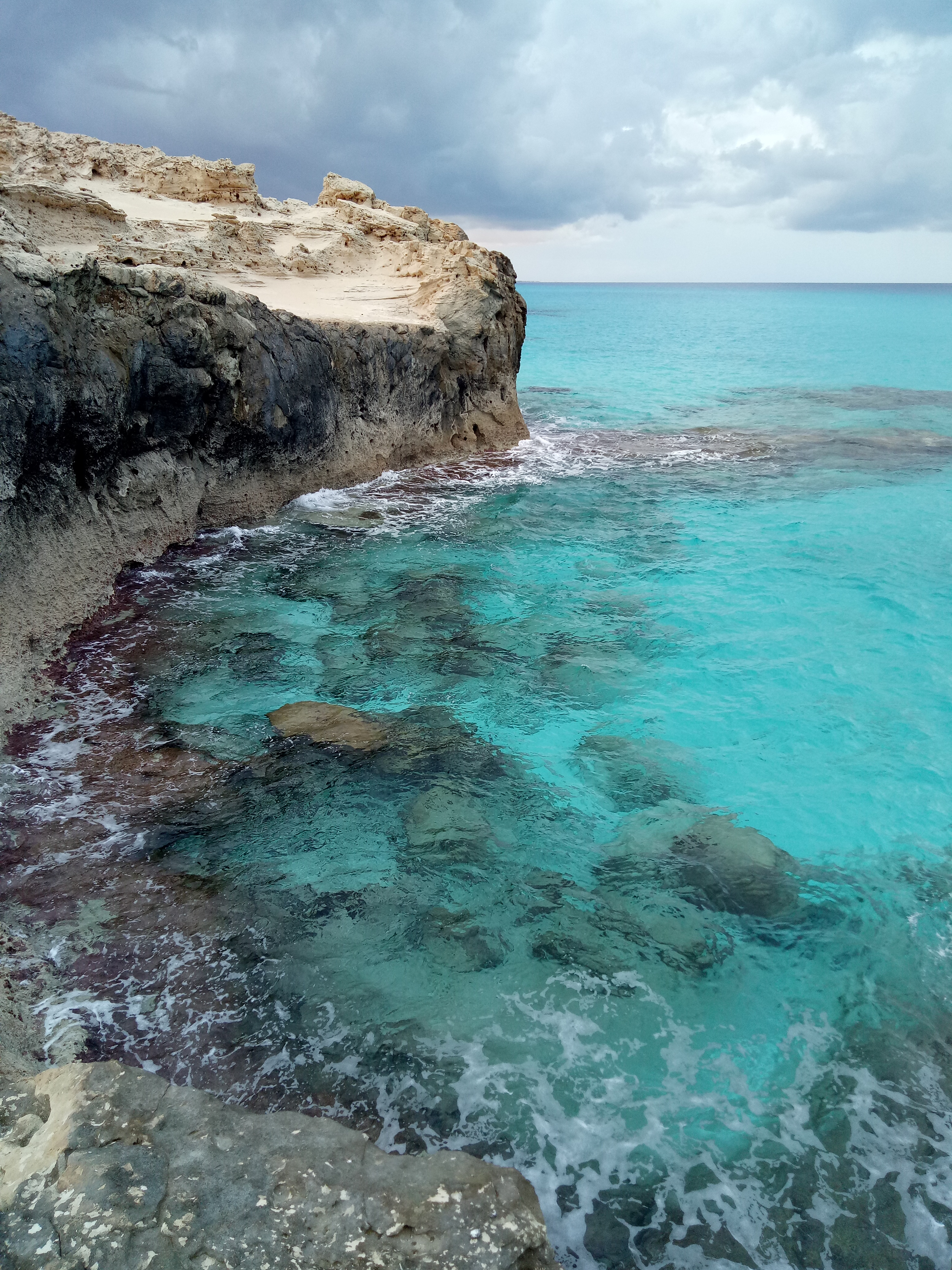 Marsa Rock of the most beautiful place overlooking the beach Pure water for the sea This is an image with the theme "Play" from: Egypt